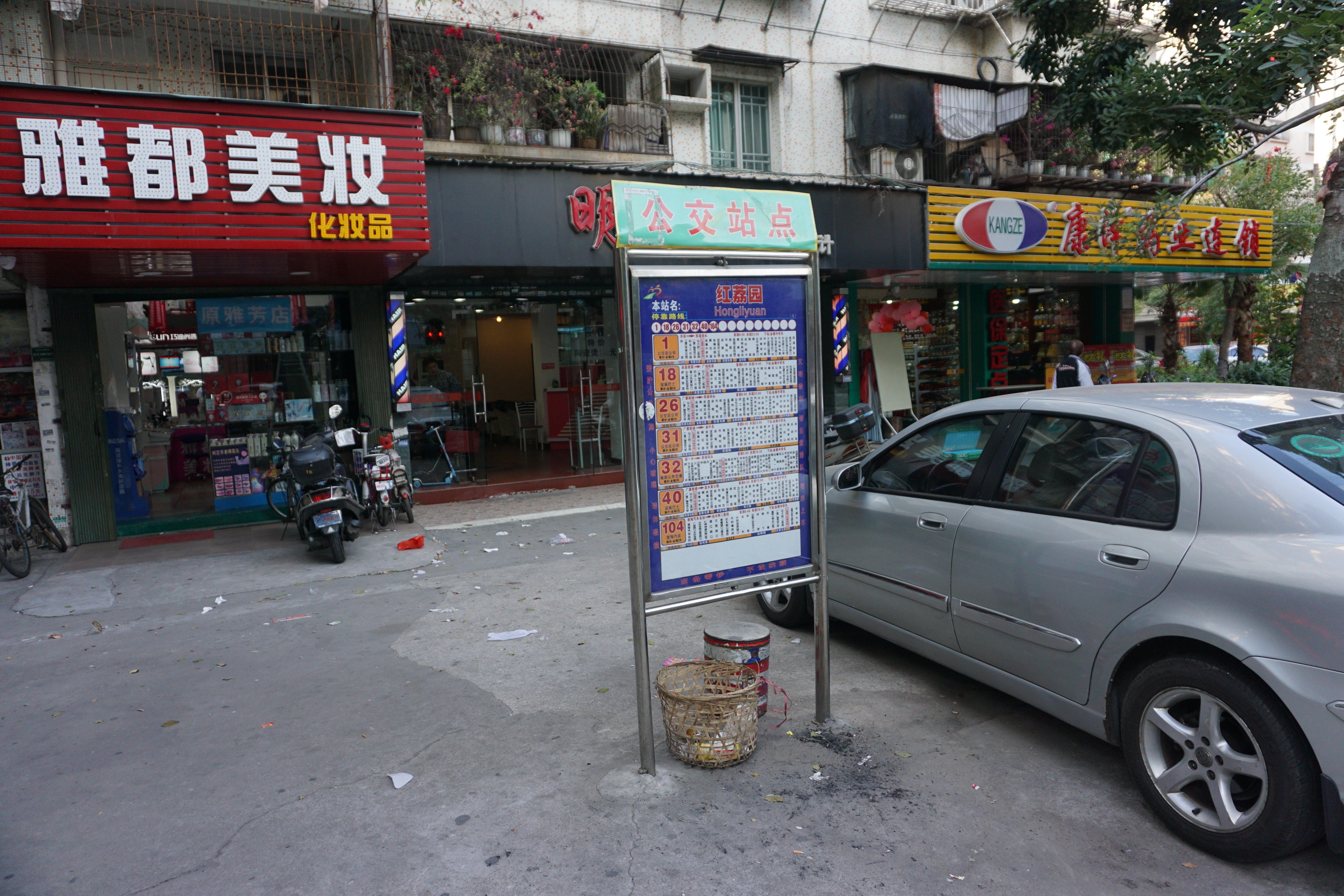 Bus stop sign in Shantou, China